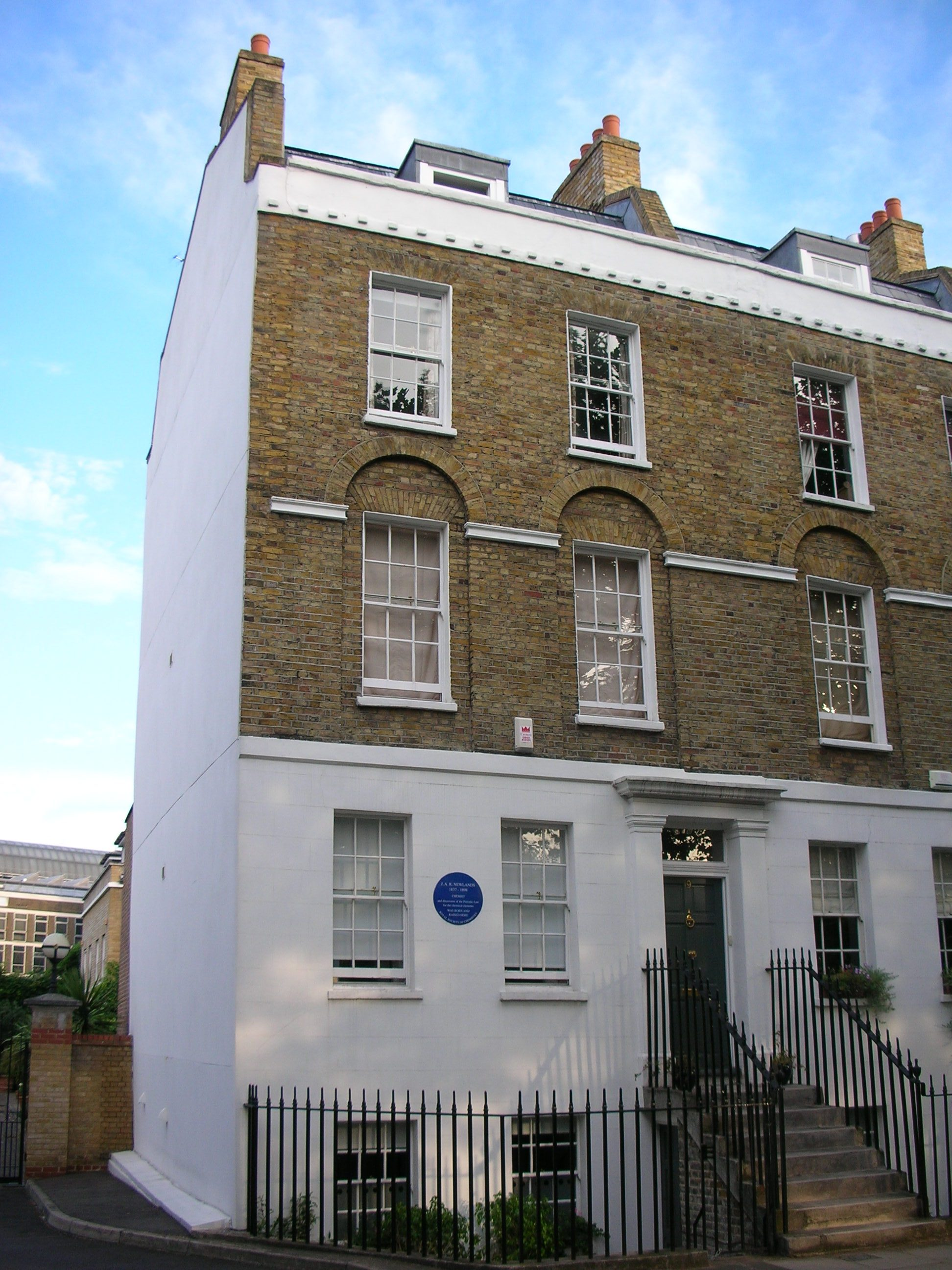 View of house where J. A. R. Newlands was born and raised in West Square, London, England. Photograph by Jonathan Bowen, 27 July 2006.